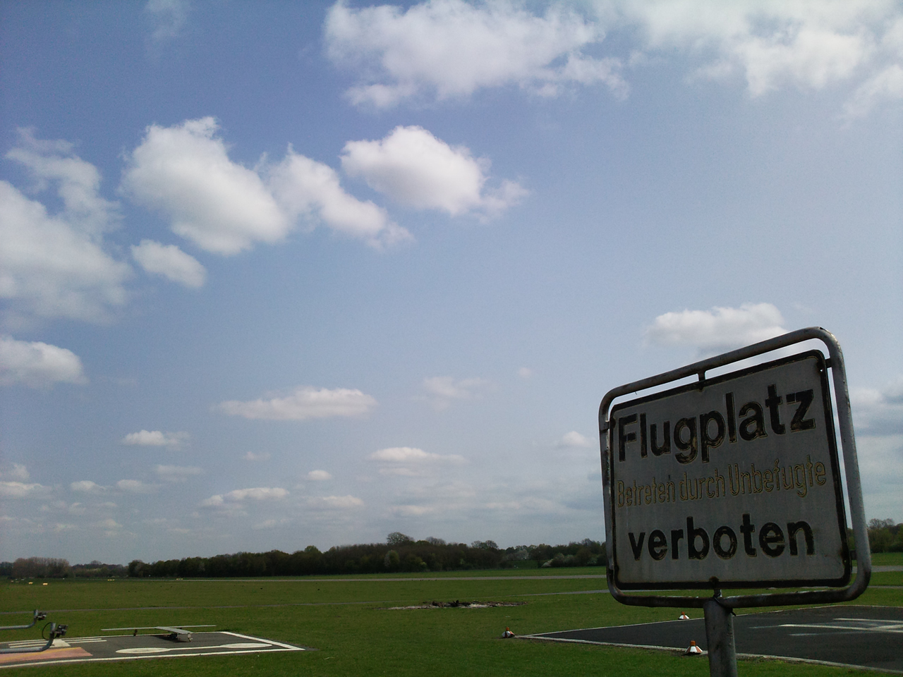 Clear sky without planes above eastern Ruhrgebiet (photographed from Flugplatz Hamm-Lippewiesen EDLH)